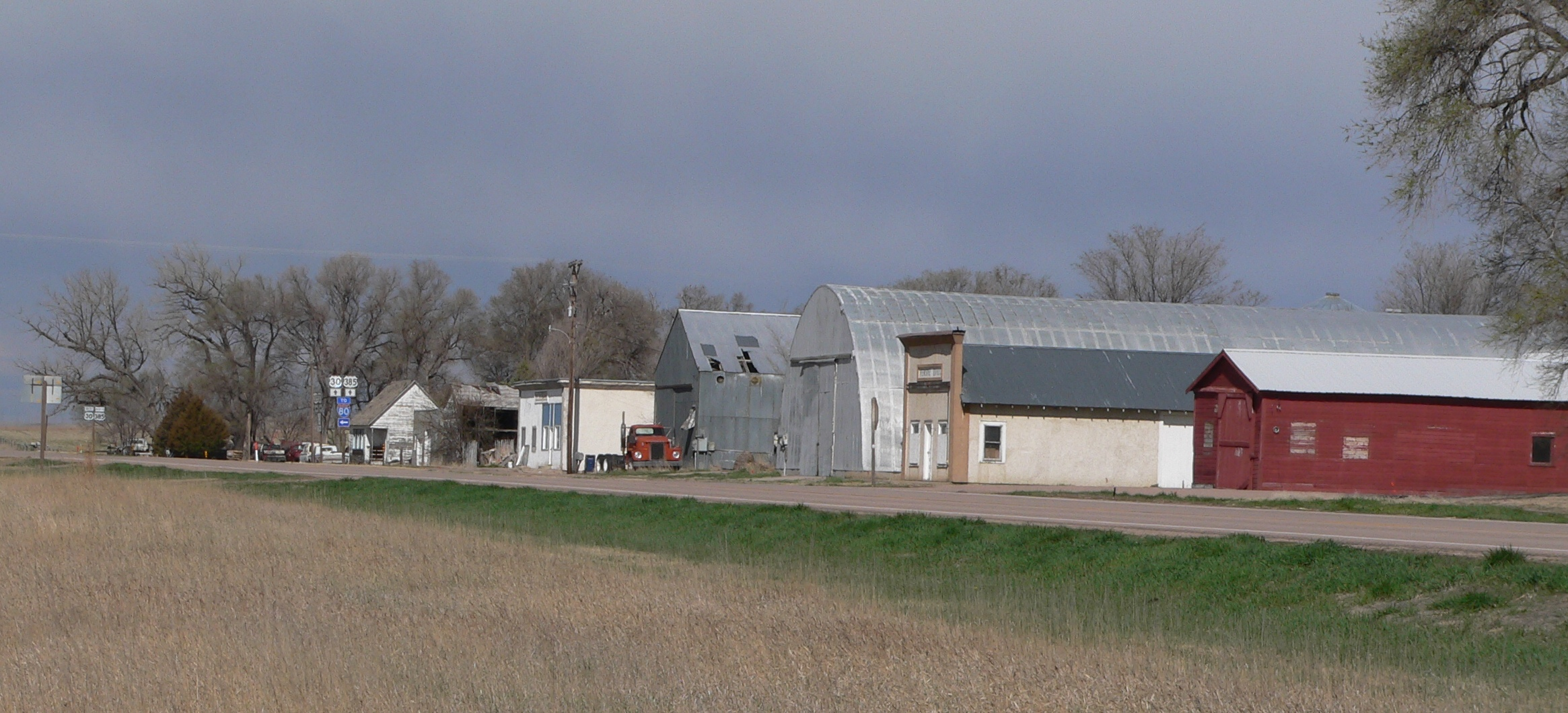 Downtown Sunol, Nebraska; in the foreground is U.S. Highway 30/U.S. Highway 385. Camera is facing northwest.